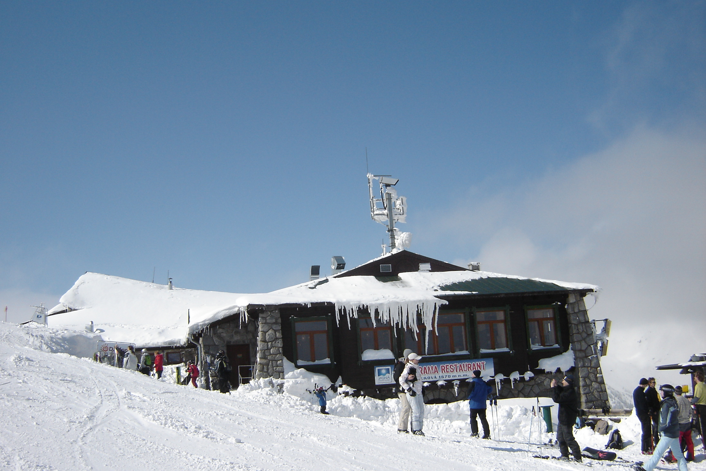 Middle station of chairlift Jasná–Chopok (change between sections Koliesko–Luková and Luková–Chopok) Both former sections are currently out of work, building serves as restaurant todays.